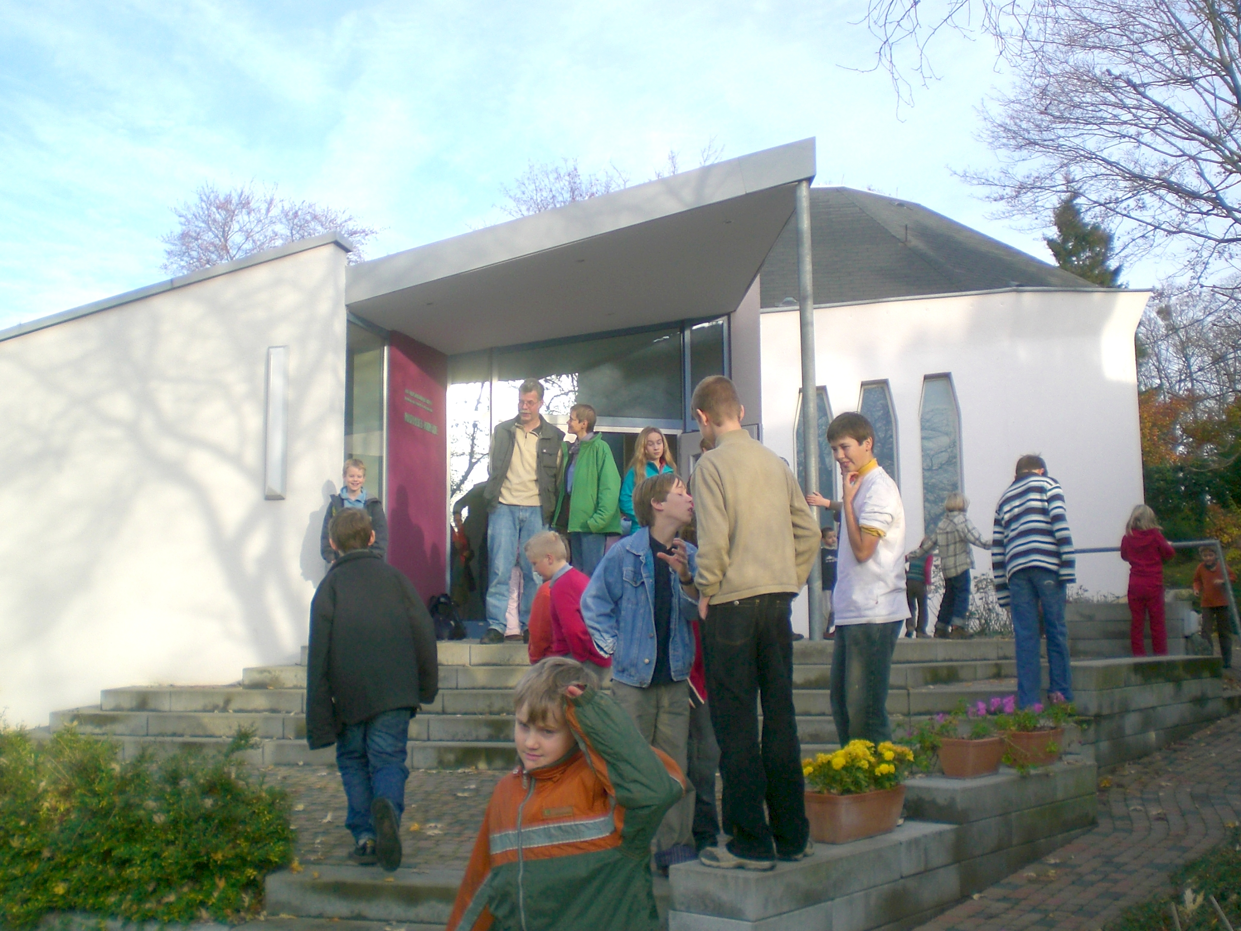 The Christian Community, Raphael Church in Darmstadt, Germany